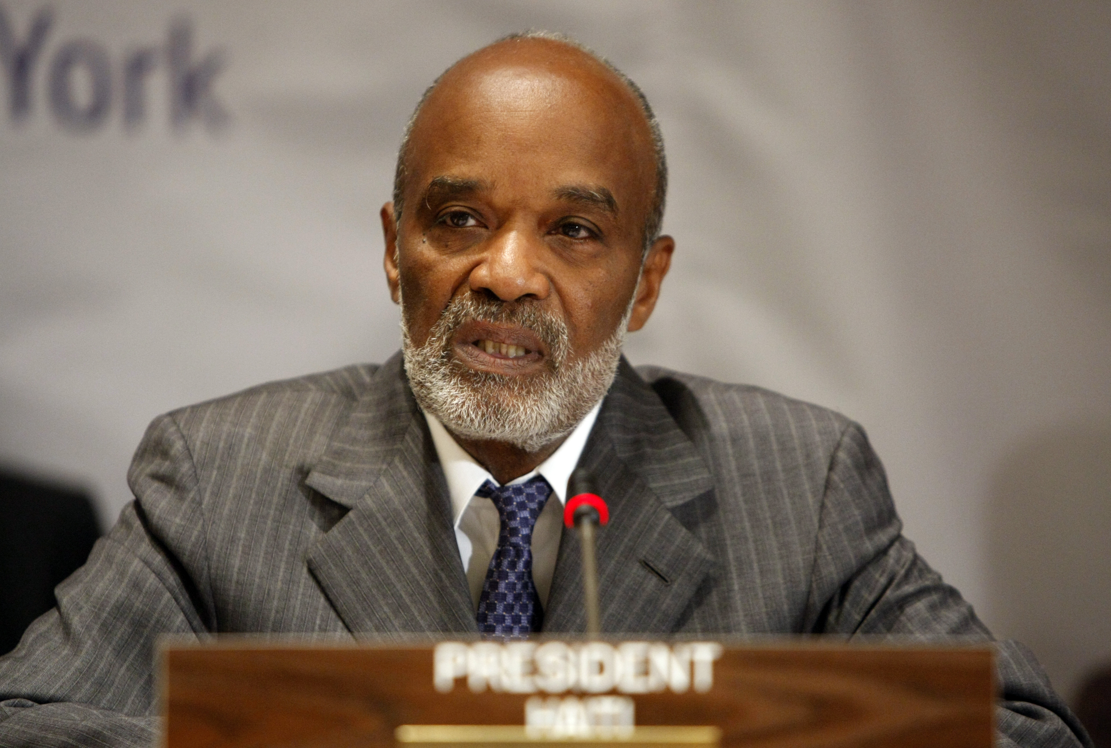 President of Haiti, René Préval, at the "International Donors' Conference towards a New Future for Haiti"